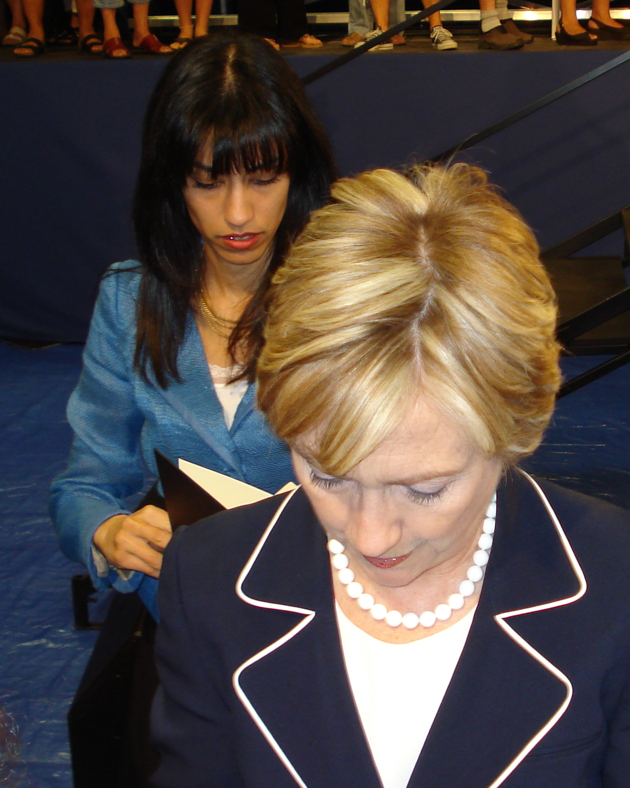 Hillary Clinton, followed by Huma Abedin. Green Valley High School - Henderson, NV